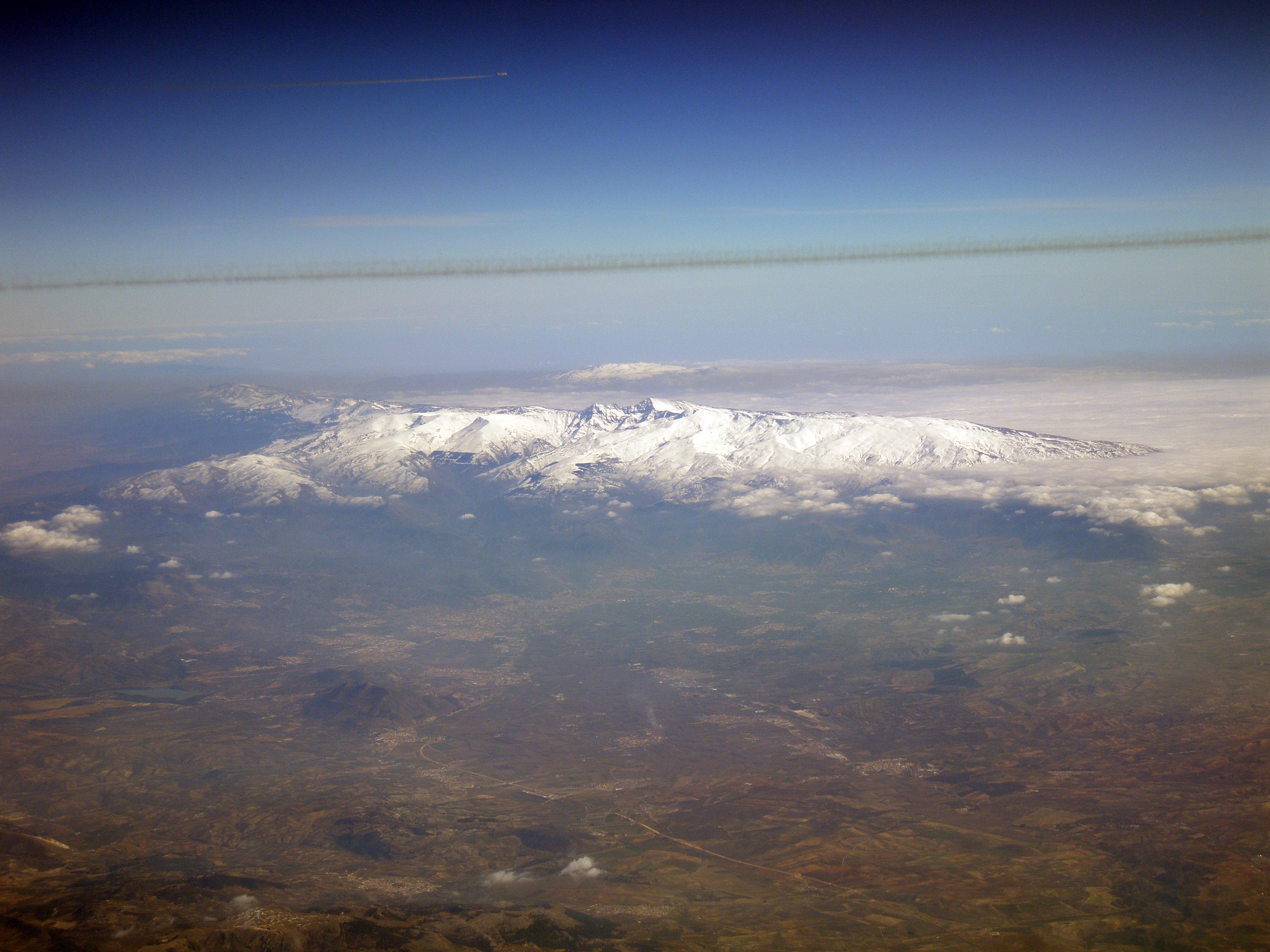 Aerial photo of Sierra Nevada, in Granada, Spain